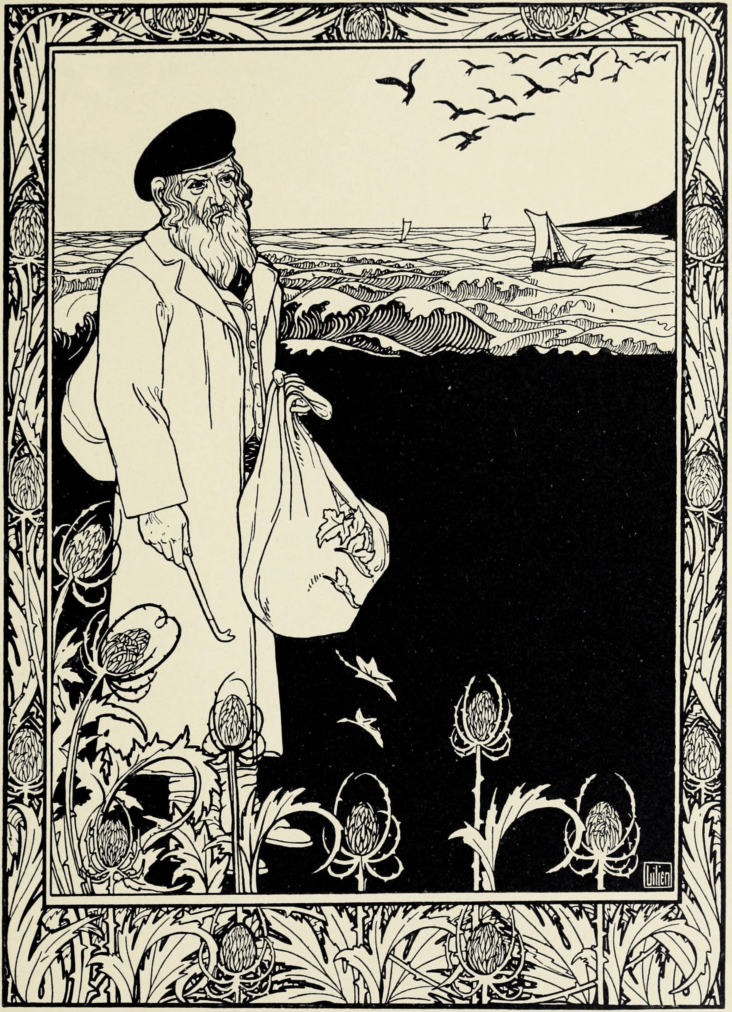 Illustration by Lilien (1874-1925) of the book (1903): Lieder des Ghetto of Morris Rosenfeld; translation from yiddish to german by Berthold Feiwel